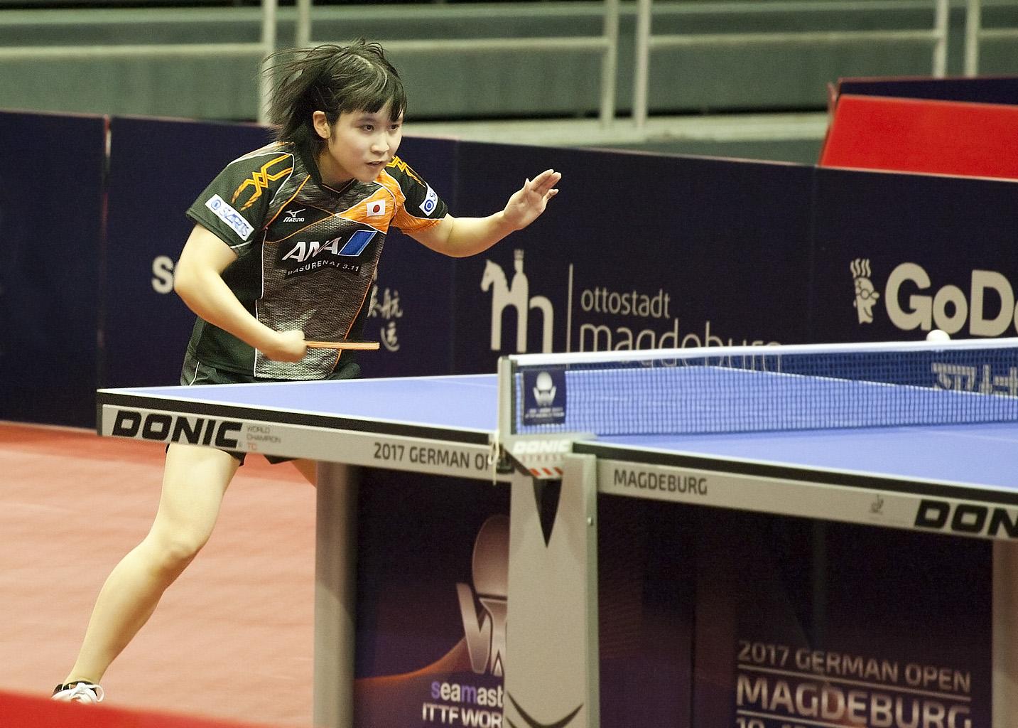 ITTF World Tour 2017 German Open, Magdeburg, Germany, 7 Nov 2017 - 12 Nov 2017, Miu Hirano